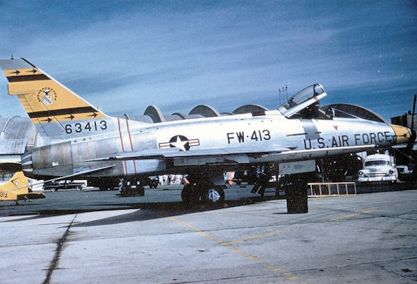 352d Tactical Fighter Squadron North American F-100D-85-NH Super Sabre 56-3413, about 1960. This aircraft was deployed to South Vietnam, and engaged in combat operations 1966-1971. Returned to the United States, flew with several Air National Guard squadrons until being retired and sent to AMARC on Sep 23, 1979 as FE0597. It was later converted to QF-100D by the 82d Aerial Targets Squadron and was expended in 1984.